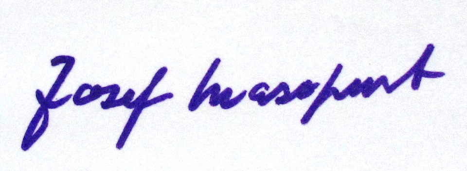 Signature of Josef Masopust, Czech footballer (2011)